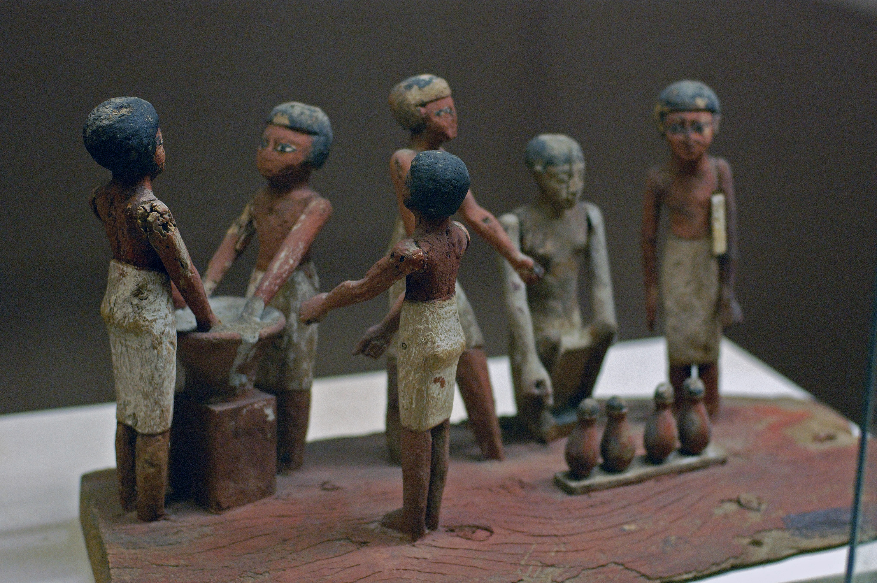 EMS-89615 Egyptian wooden model of beer making in ancient Egypt, located at the Rosicrucian Egyptian Museum in San Jose, California.